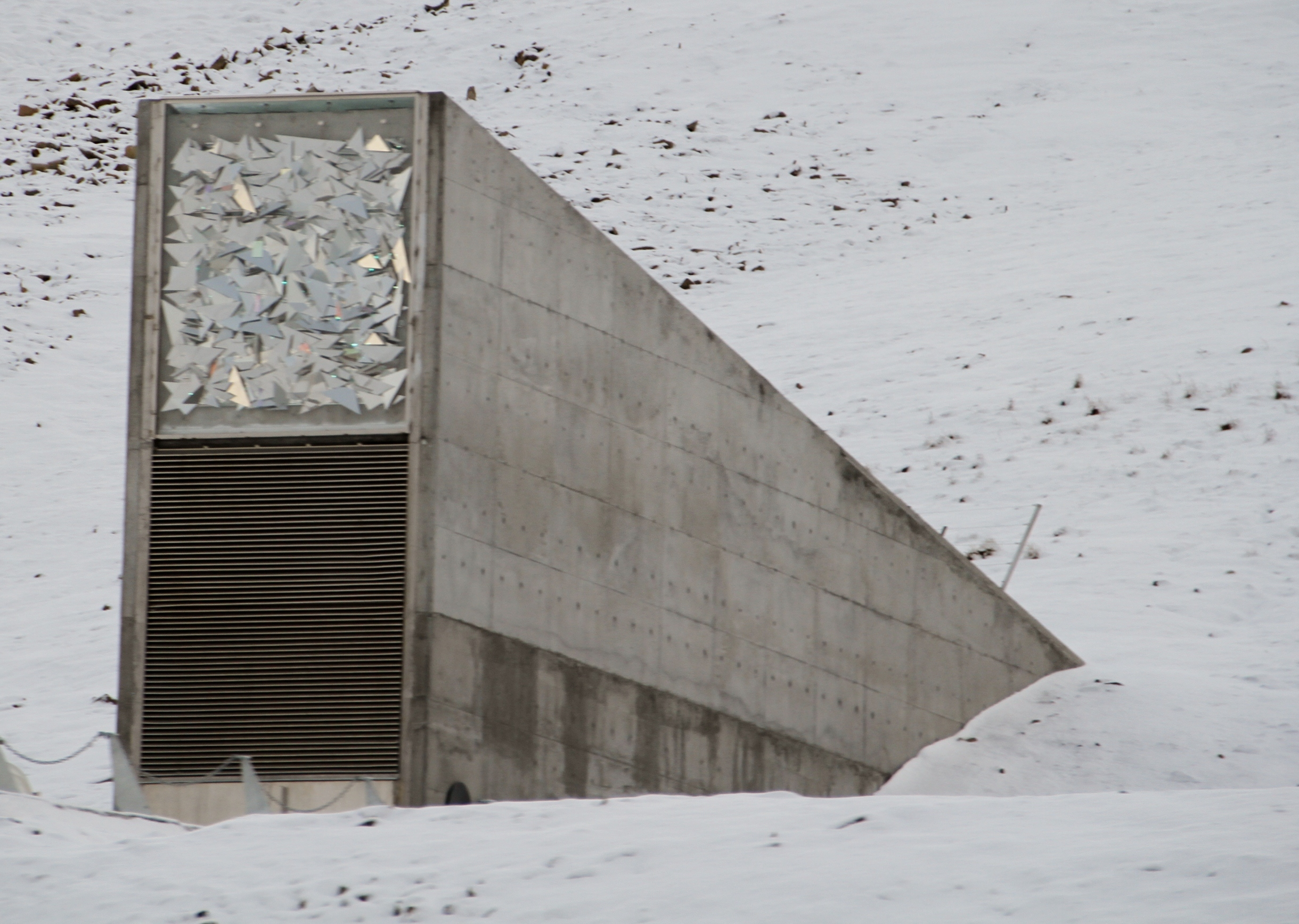 The svalbard global seed vault, established in a part of mine No 3, as a repository of the global plant diversity.